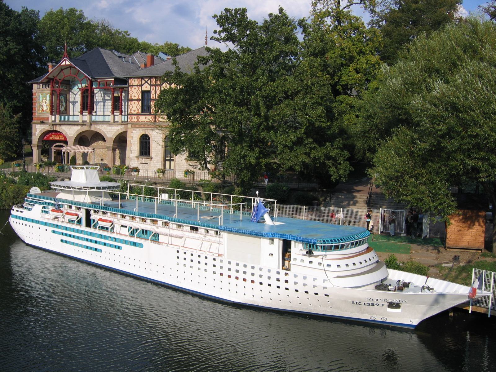 The cruise ship Majesty of the Seas (mini) at Sarreguemines on September 25, 2005.